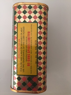 Curry powder - directions for use - manufacturer.